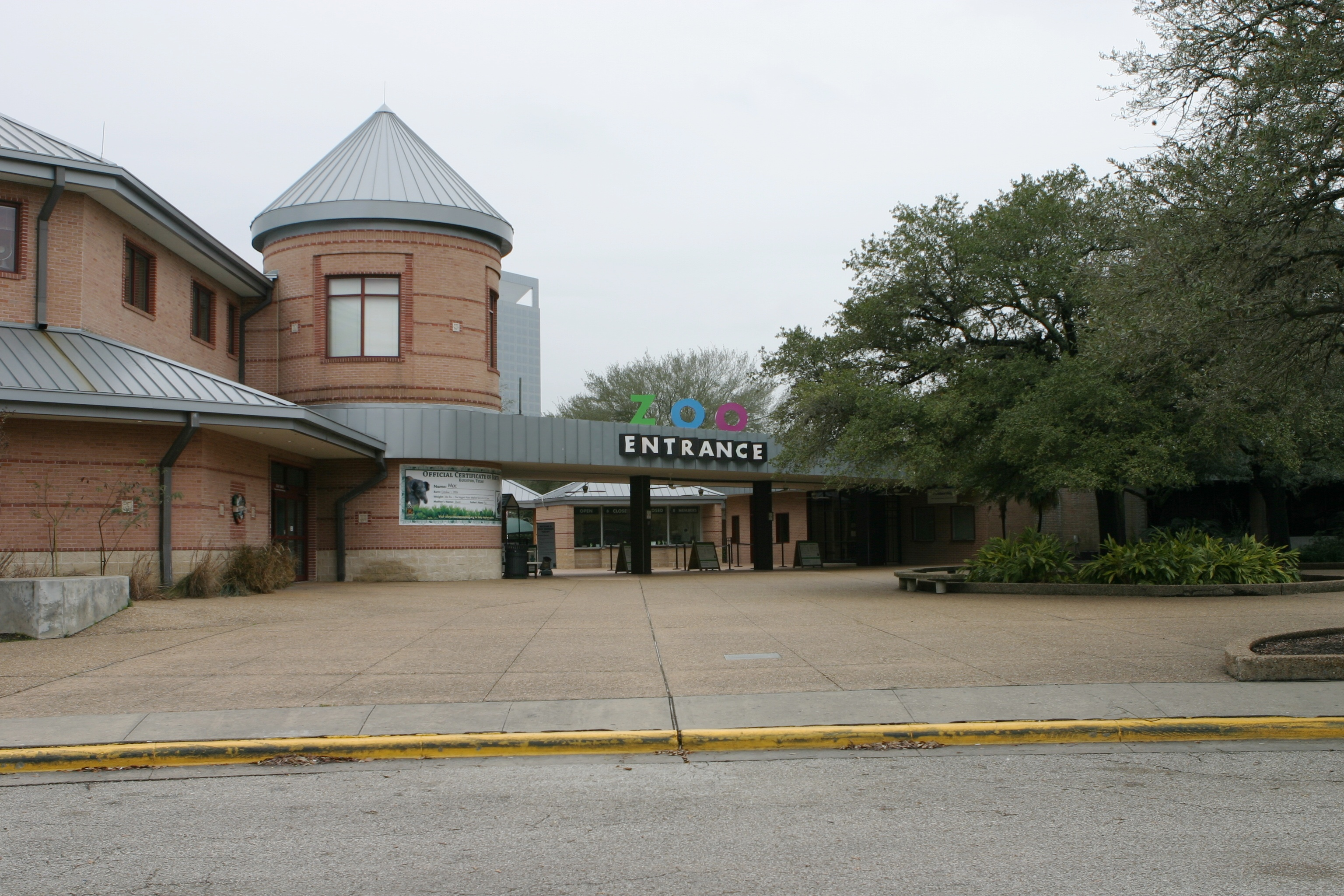 Entrance to the Houston Zoo